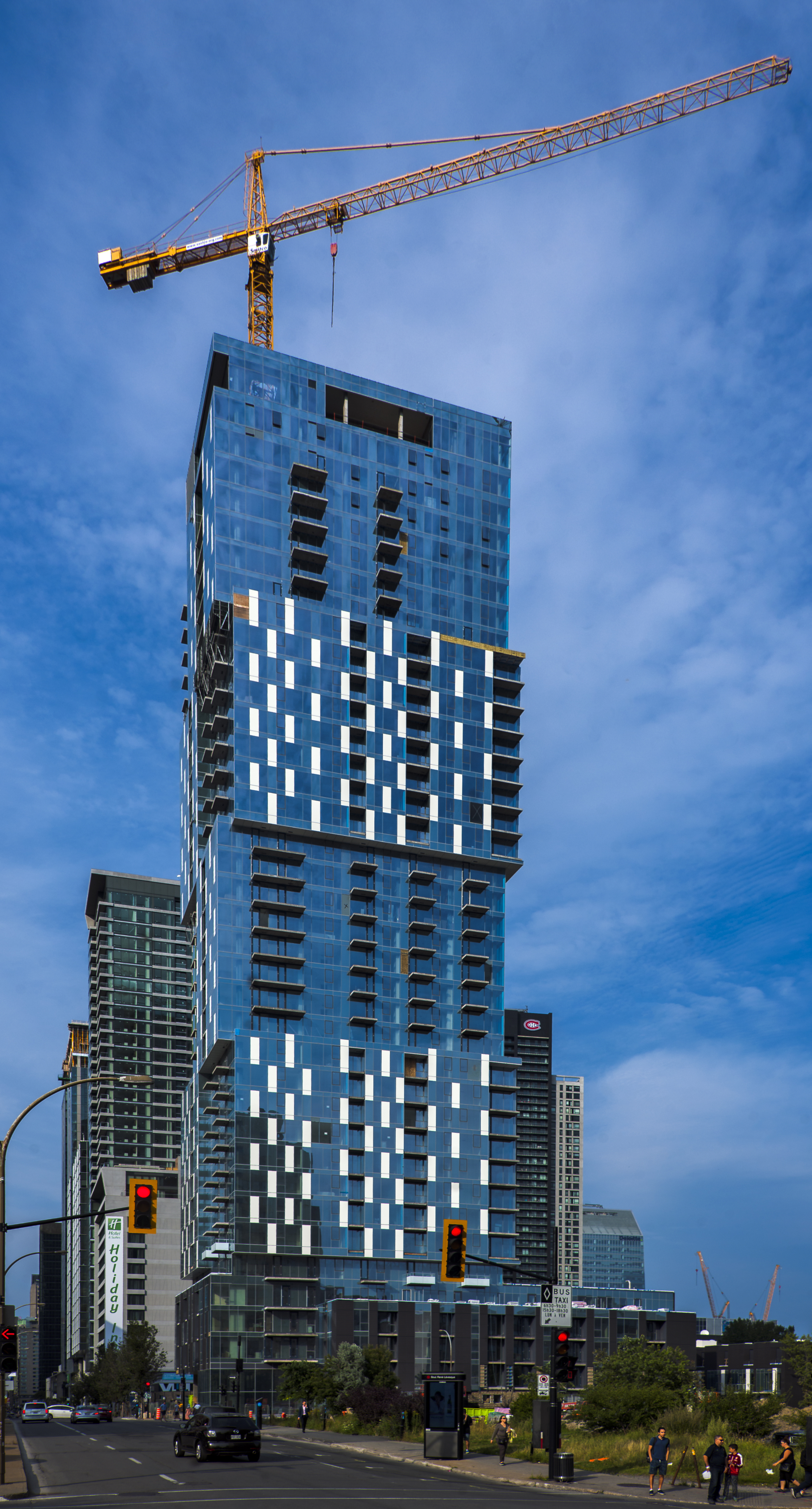 YUL Condos, Montreal, nearing completion.